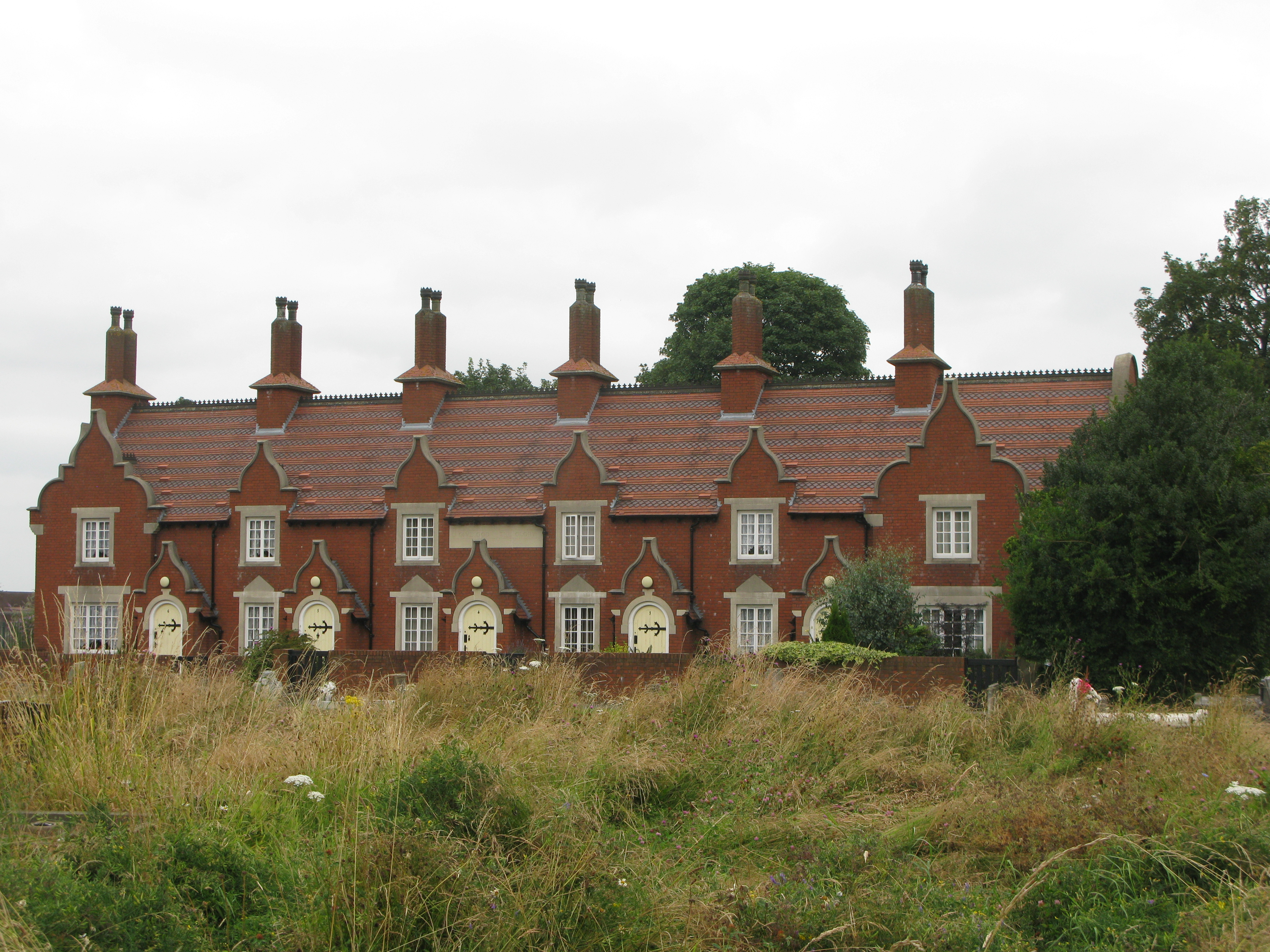 Grade II